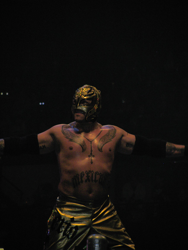 Rey Mysterio @ Adelaide, South Australia 'Smackdown' house show on the 3rd of August '10